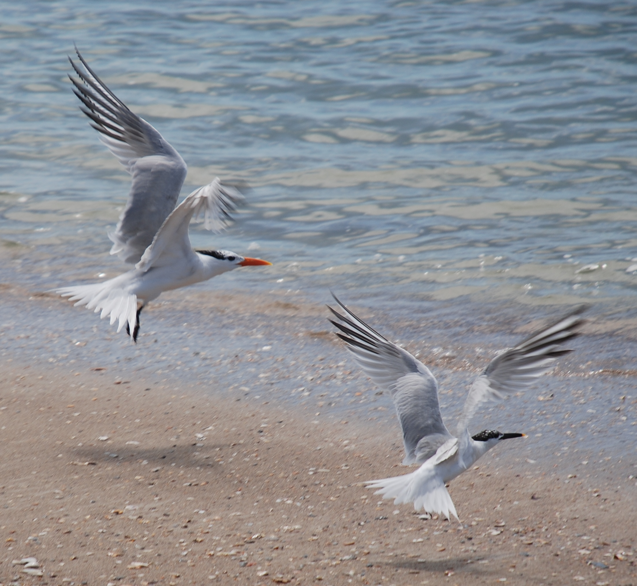 Birds of Core Banks, North Carolina: Royal Tern Thalasseus maximus (left) and Cabot's Tern Thalasseus acuflavidus (right) on the beach